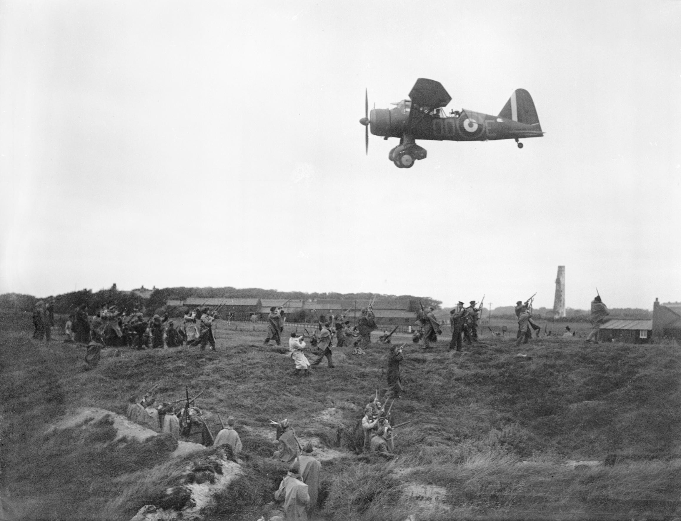 A Westland Lysander of No. 13 Squadron RAF based at Hooton Park, Cheshire, provides aiming practice for members of the Home Guard, at the Western Command Weapons Training School at Altcar, near Formby, 17 September 1940. Westland Lysander Mark III, 'OO-E' of No. 13 Squadron RAF based at Hooton Park, Cheshire, provides aiming practice on low-flying aircraft for members of the Home Guard, at the Western Command Weapons Training School at Altcar, near Formby, Lancashire.